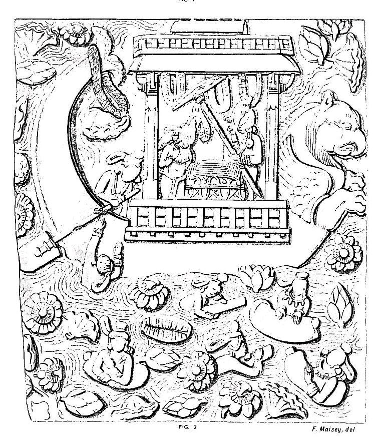 Maisey Sanchi relief